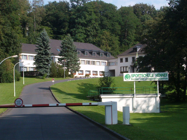 College of physical education Hennef (Sieg), Germany.